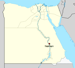 A print screen from the auto-map on Nekhen